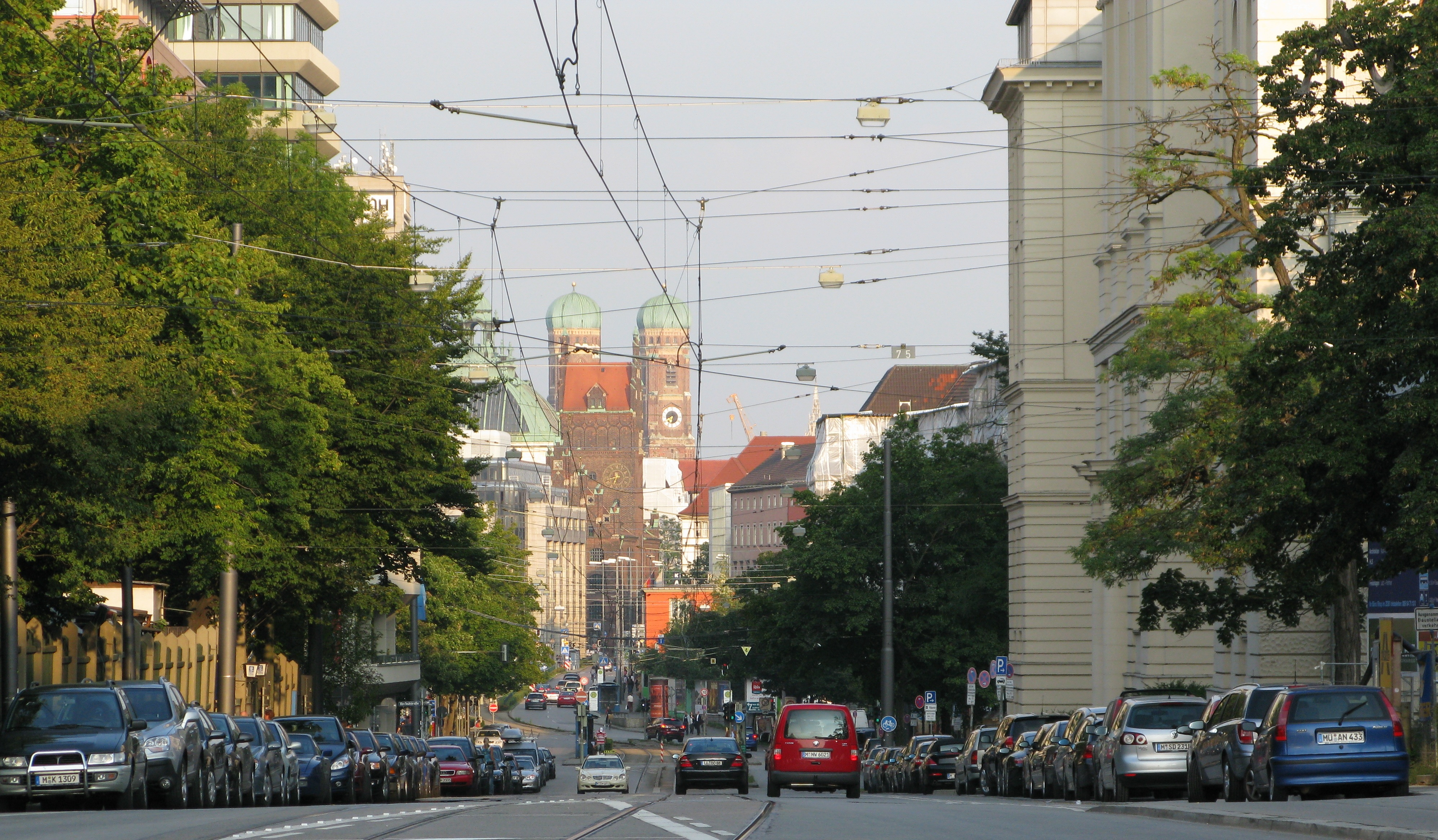 The Arnulfstraße in Munich with the two towers of the Frauenkirche in the background. On the very left: The trees and fence of the Augustiner-beergarden next to the main building of the Bayerische Rundfunk (not visible)